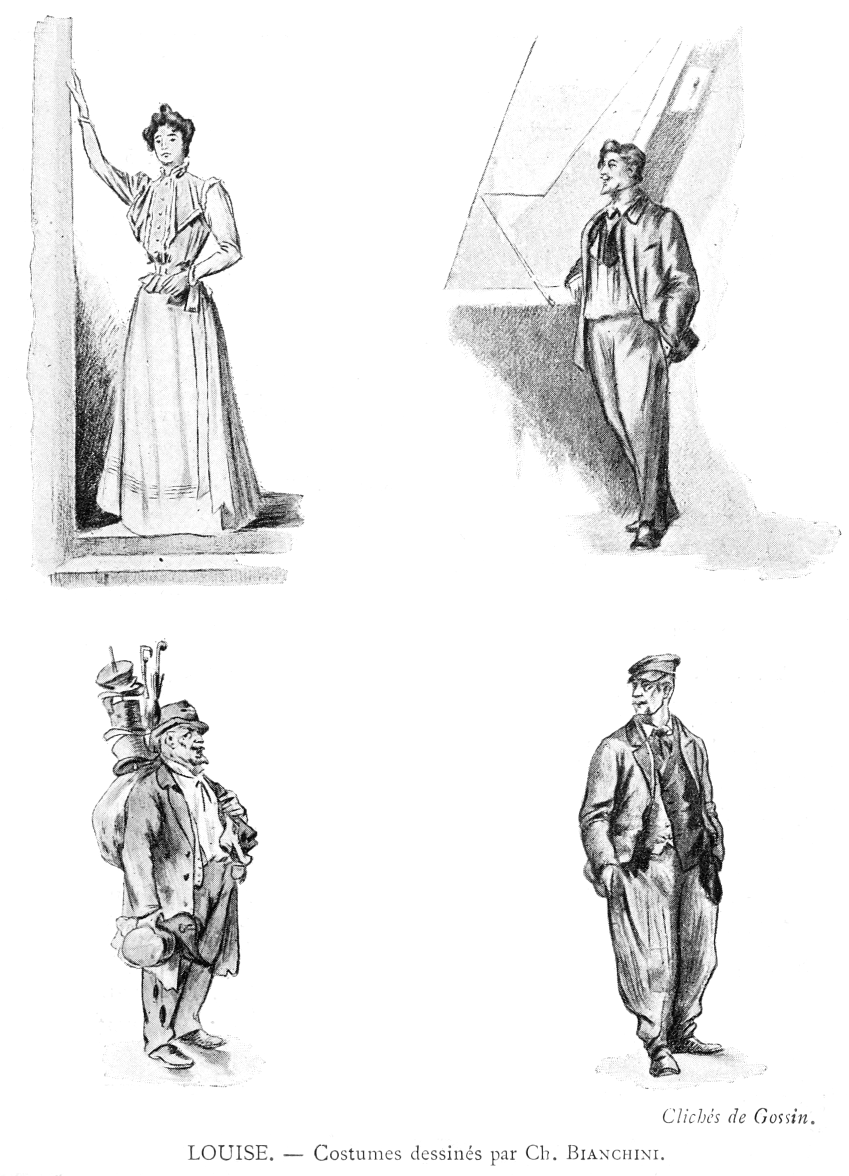 Gustave Charpentier - Louise - Costumes dessinés par Ch. Bianchini - Clichés de Gossin - 1